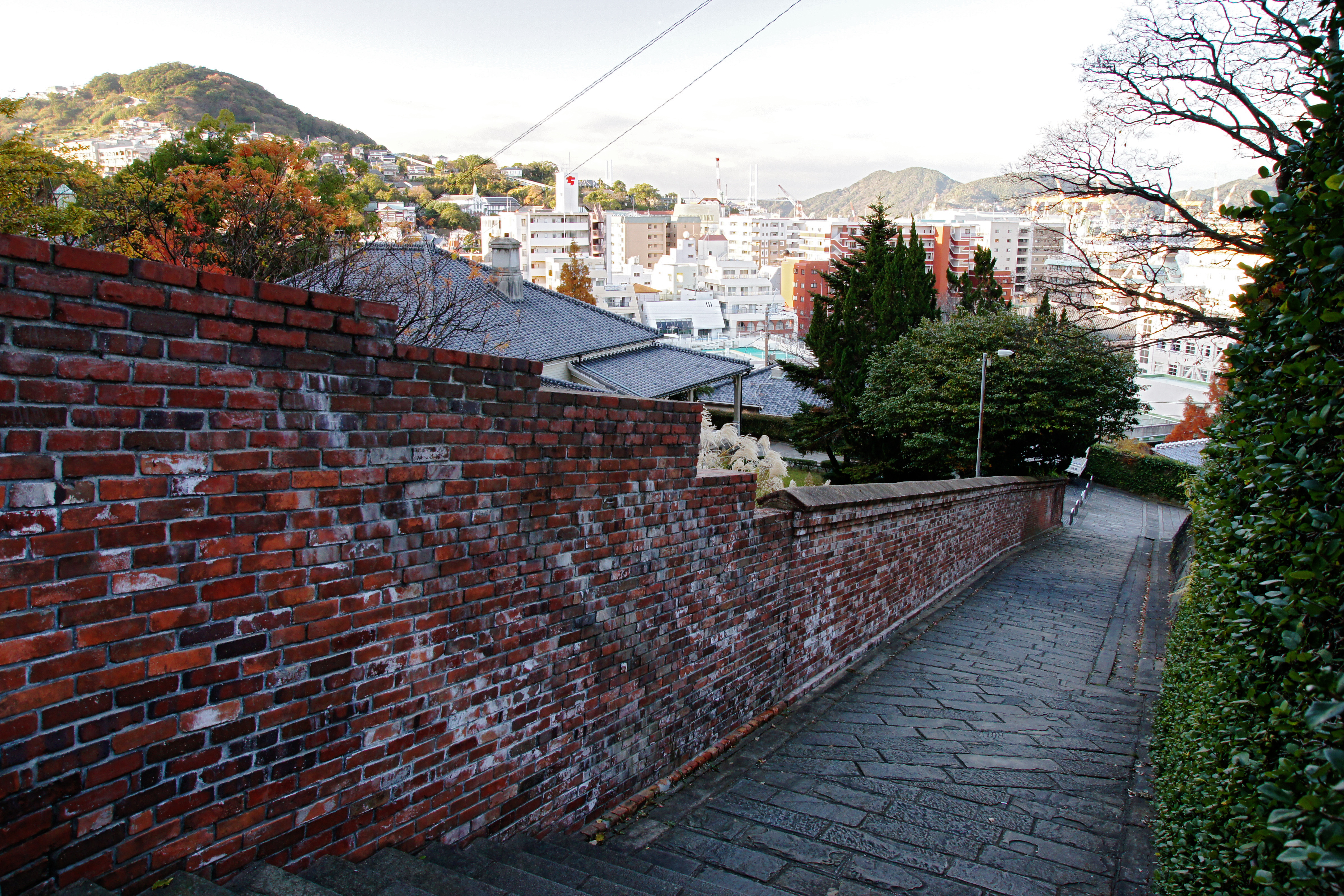 Oranda Zaka (The Dutch slope), Higashiyamate, Nagasaki, Nagasaki prefecture, Japan